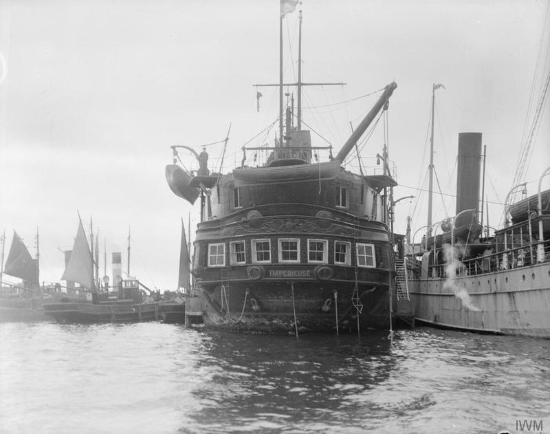 The Royal Navy during the First World War HMS Imperieuse in use as a Mail Depot Ship.